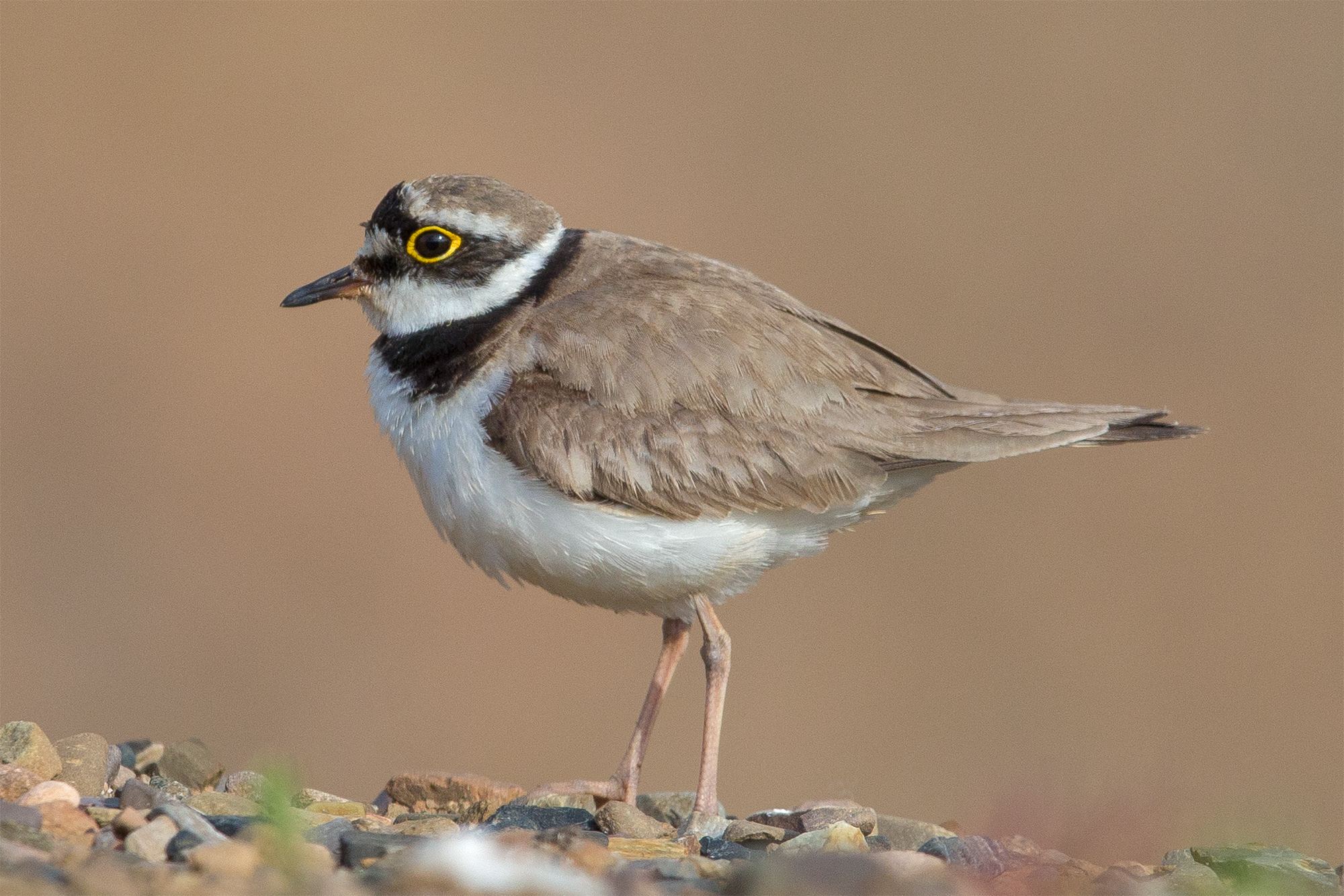 Little ringed plover